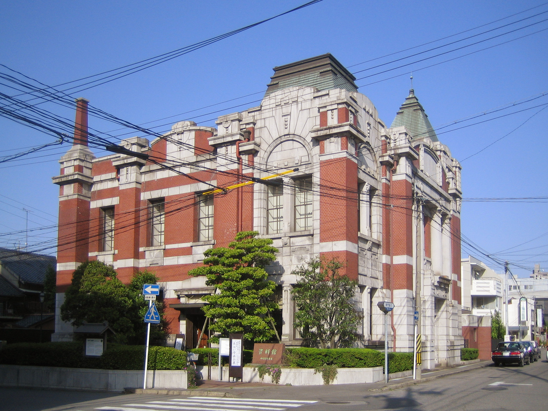 Okazaki Shinkin Bank Museum (岡崎信用金庫資料館), located in Okazaki, Aichi, Japan